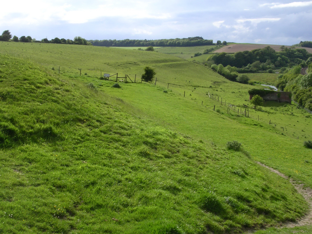 Course of the Dorchester Roman Aqueduct. Looking NW along the course of the Roman aqueduct which carried water to the settlement at Dorchester (Dvrnovaria). The River Frome valley is on the right of the picture and the A37 bypass which cuts diagonally across this grid square is well hidden in a cutting.